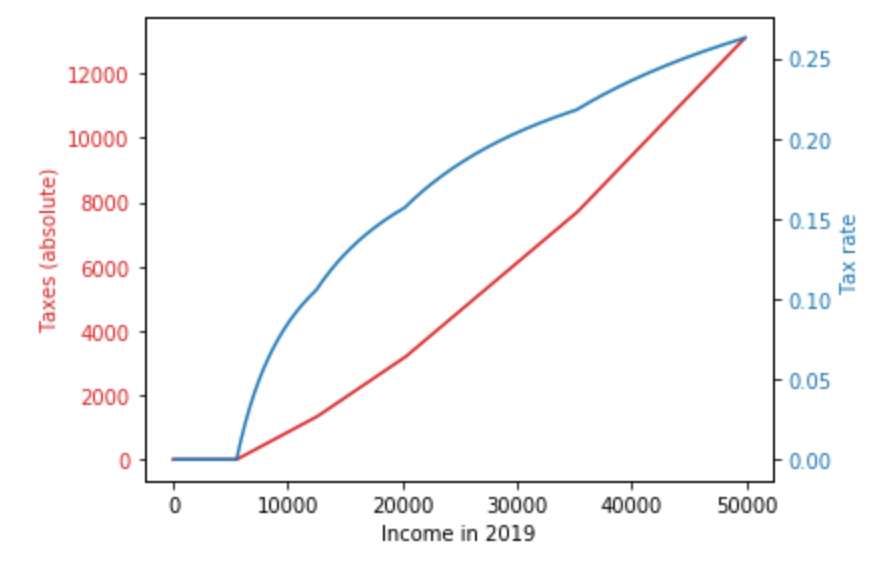 Income tax in Spain for a single person